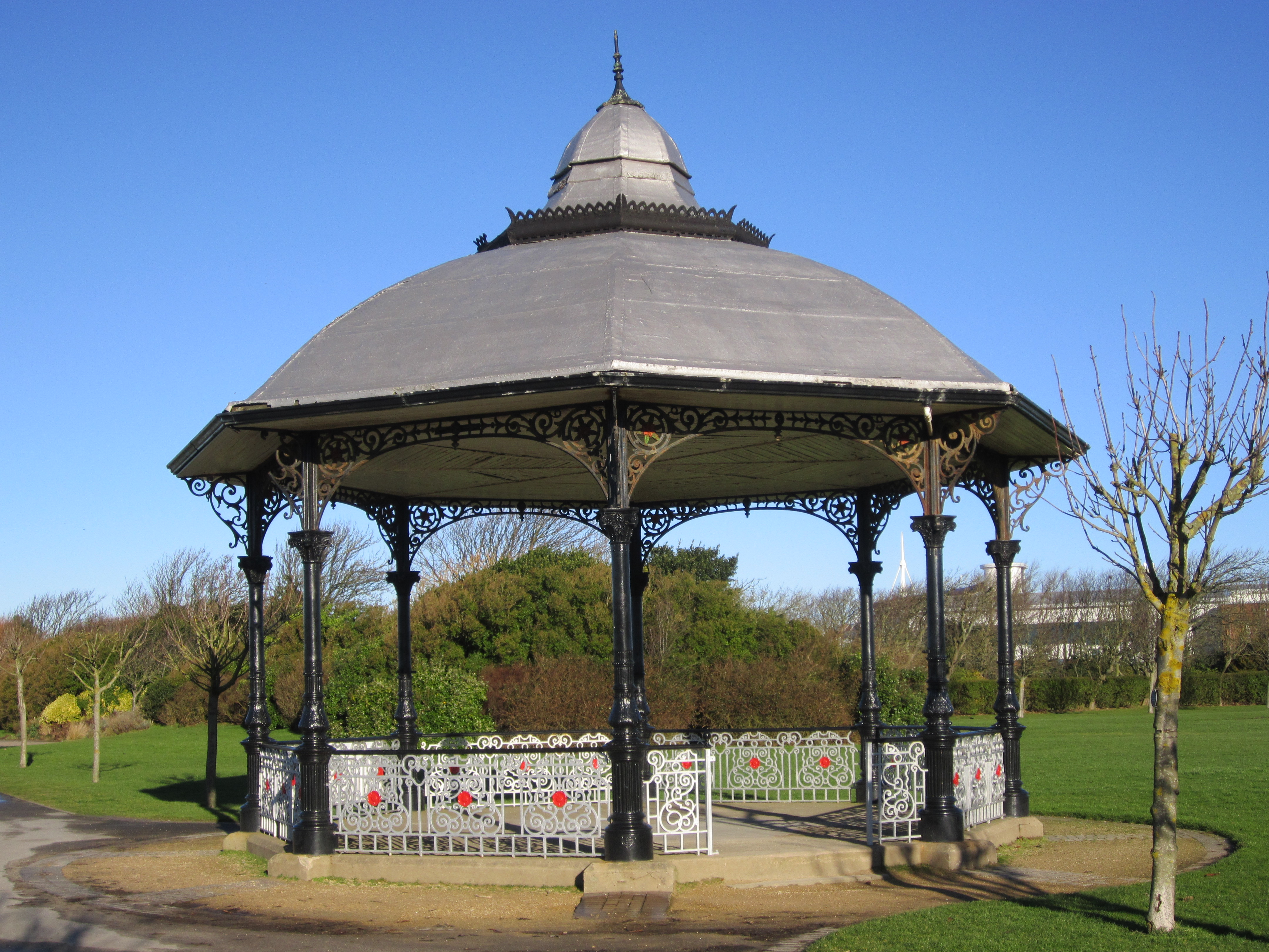 Photo taken at Victoria Park, Southport, Merseyside, England.